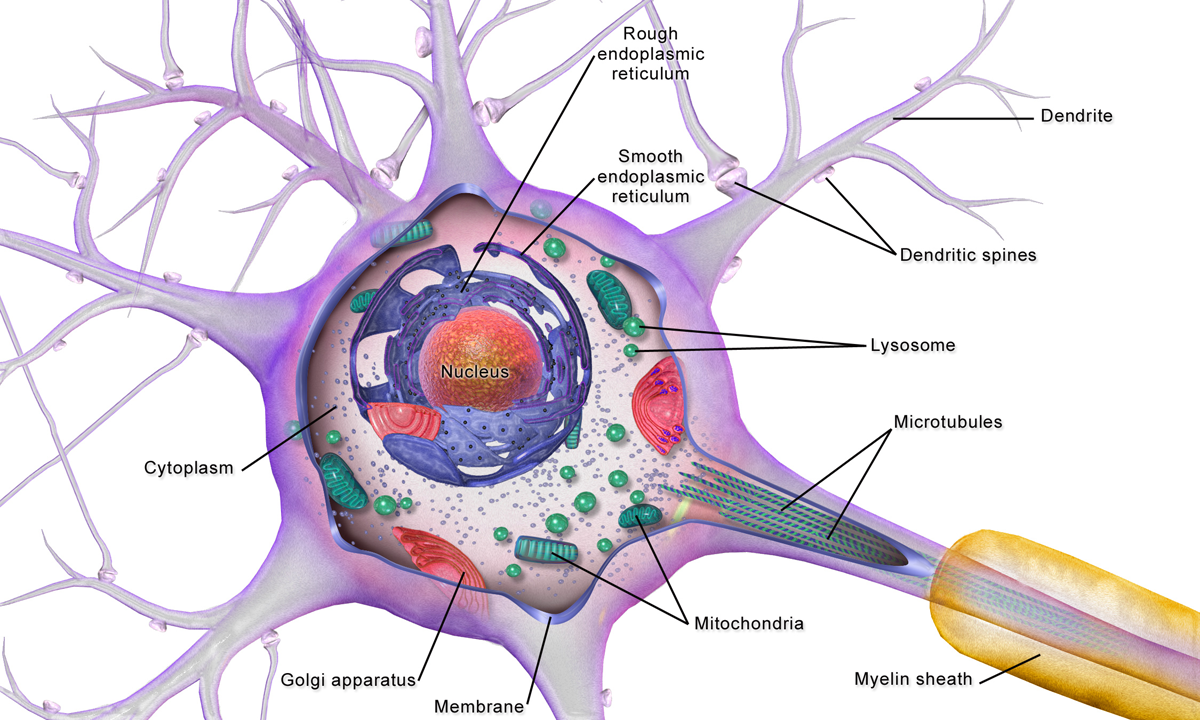 Animation in the reference.[1]